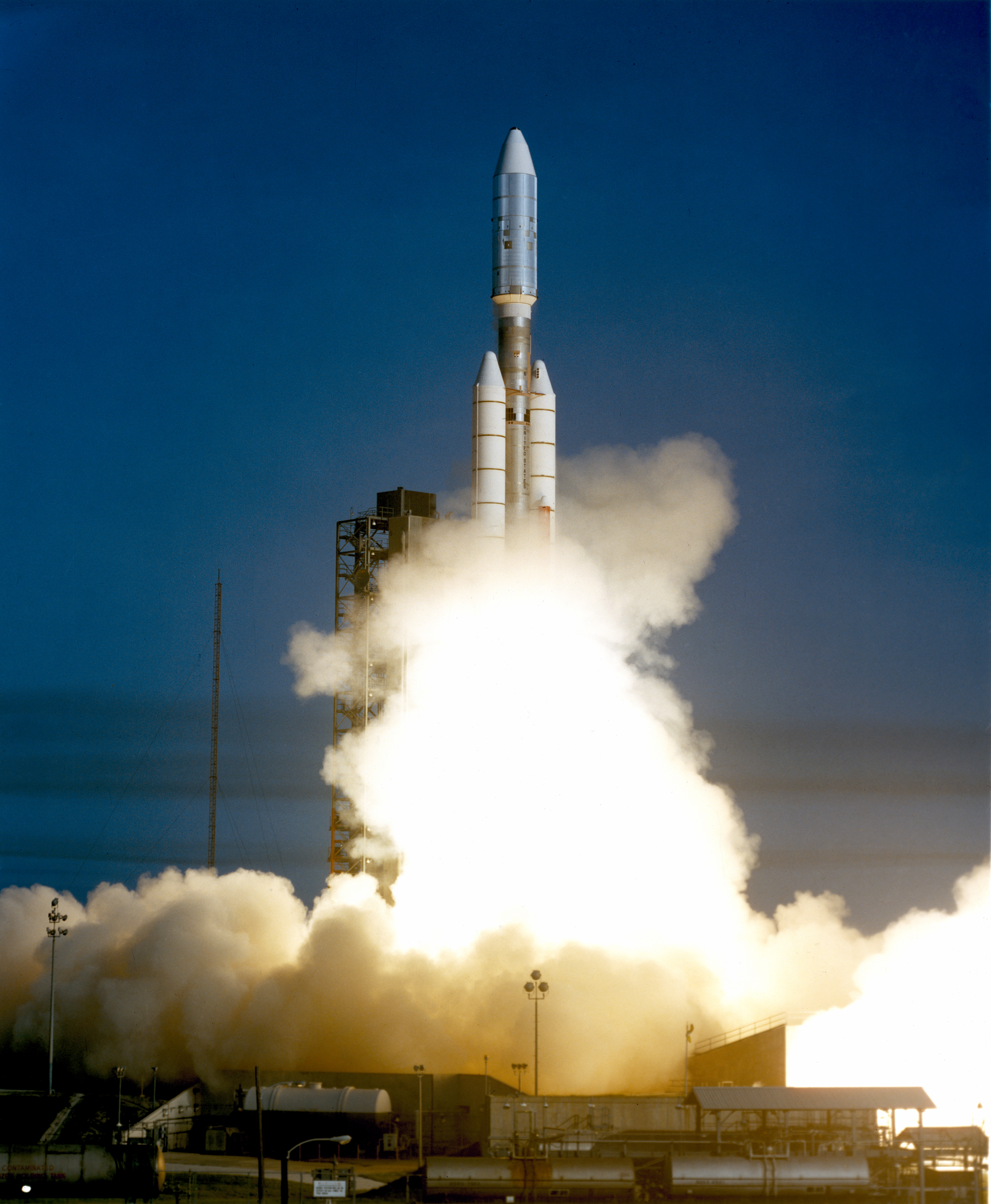 The Voyager 1 aboard the Titan III/Centaur lifted off on September 5, 1977, joining its sister spacecraft, the Voyager 2, on a mission to the outer planets.